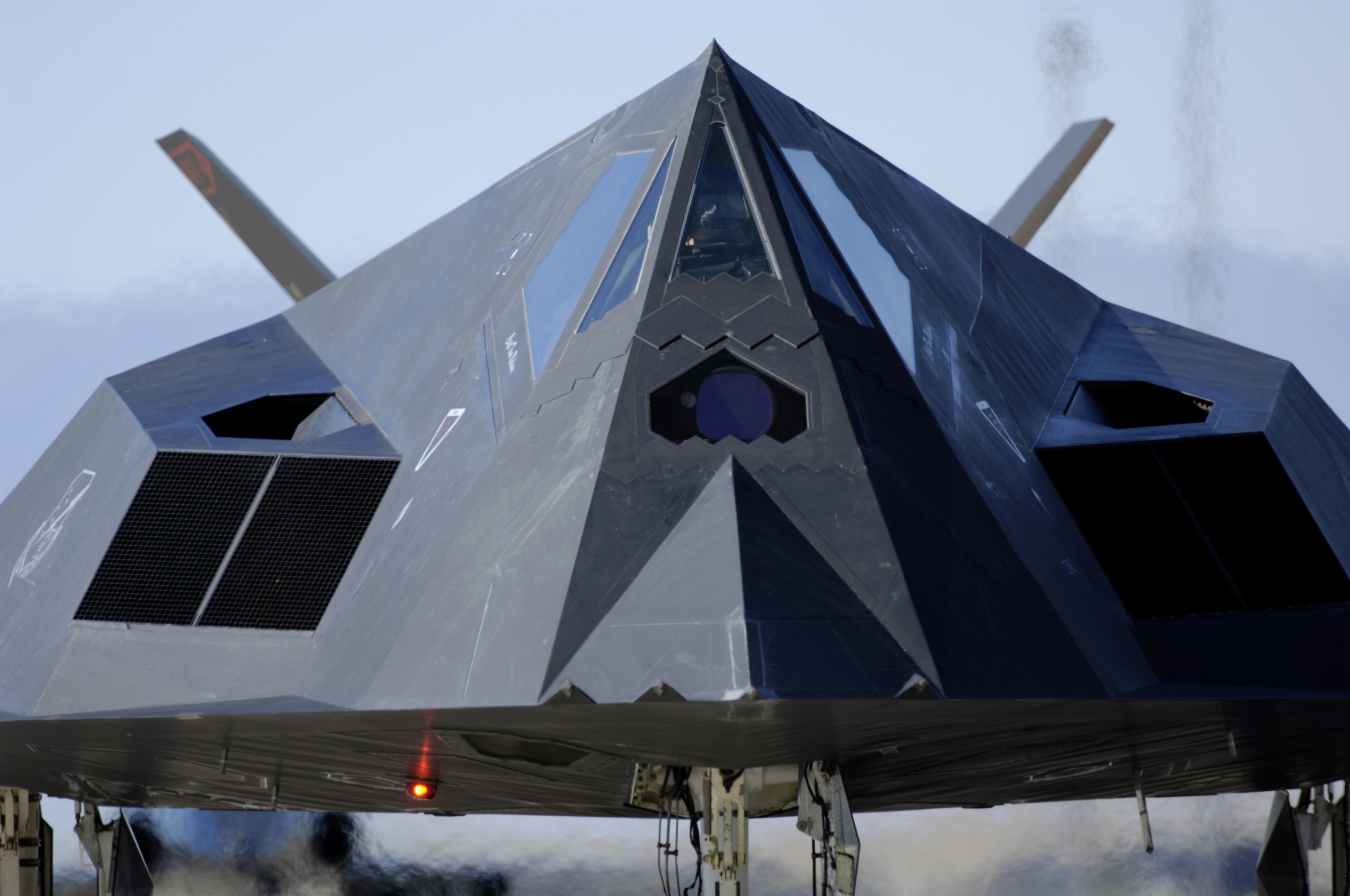 An F-117 Nighthawk taxis down the runway before its flight during the Holloman Air and Space Expo at Holloman Air Force Base, N.M., Oct. 27, 2007.